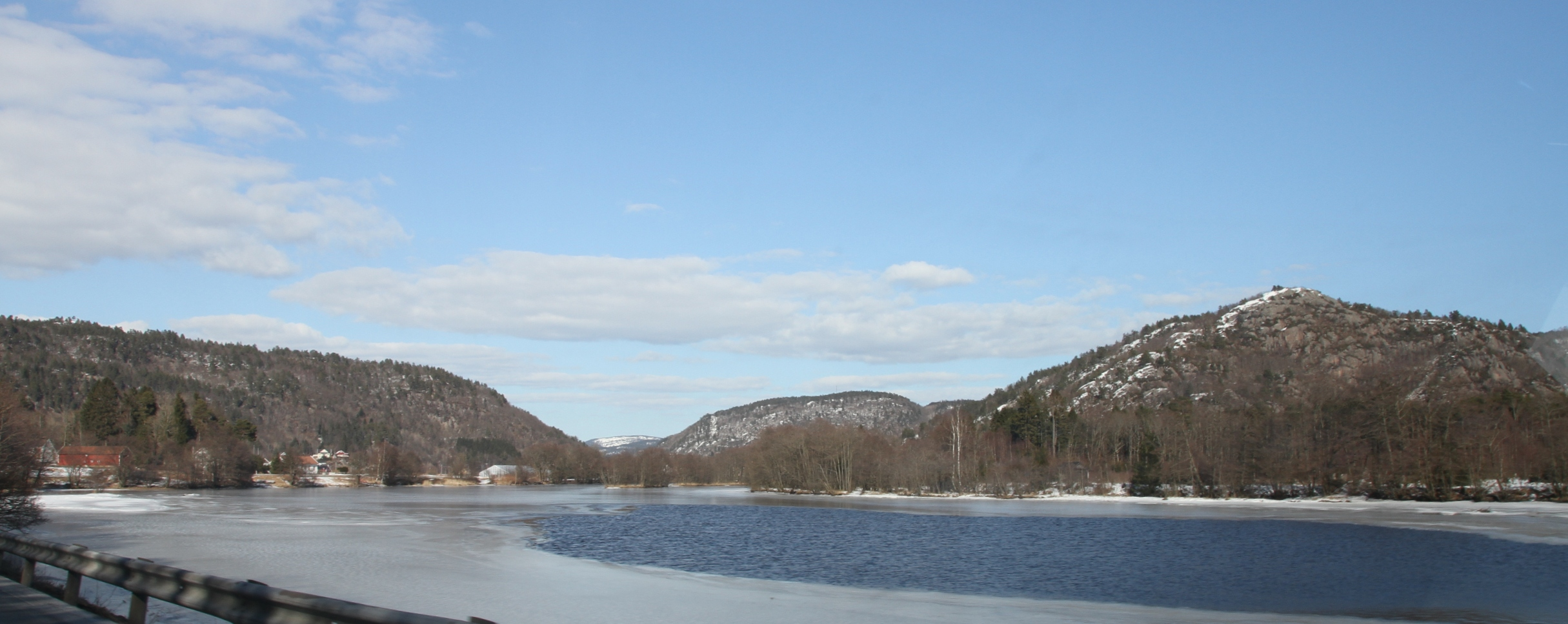 Image from the municipality of Lindesnes, just oputside Vigeland township. Vest-Agder county, south Norway.